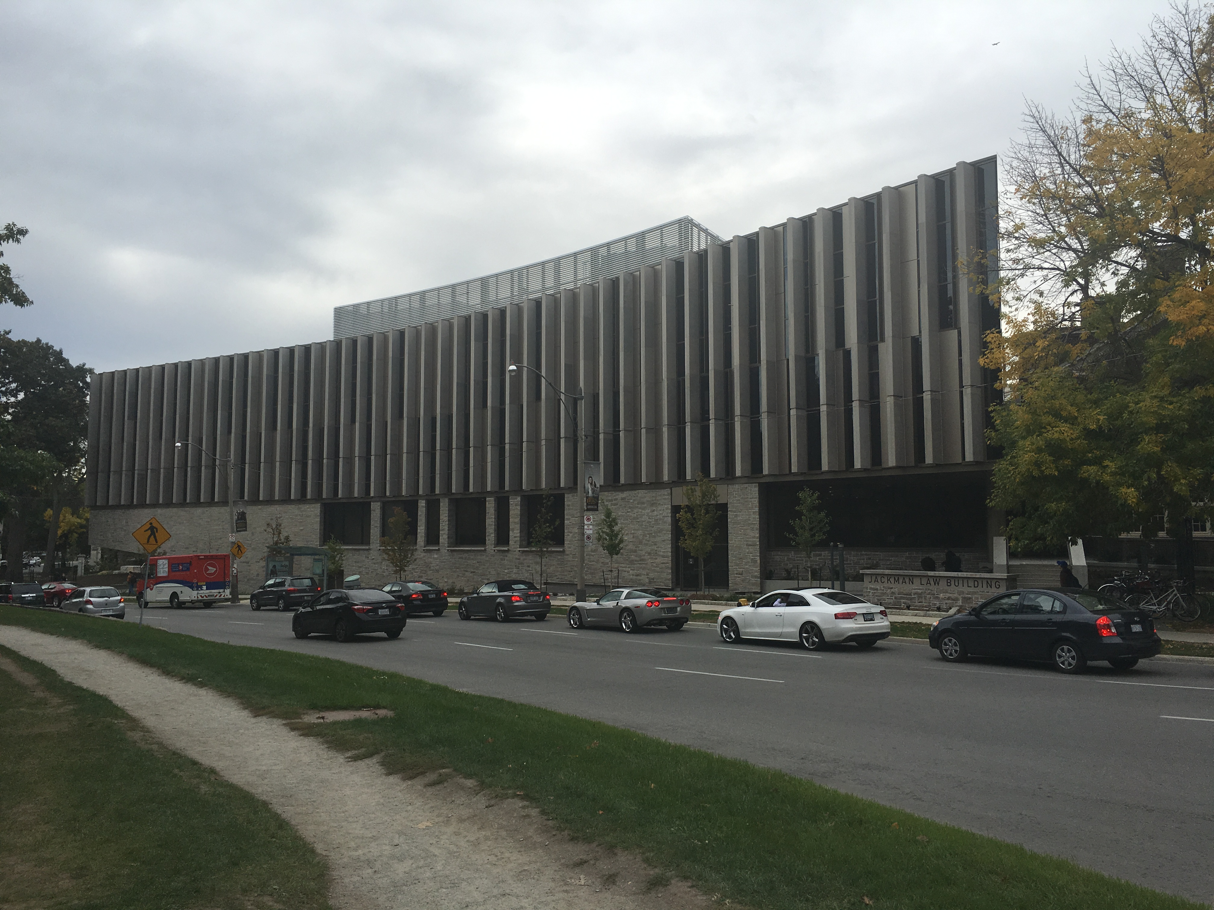 Jackman Hall building for the University of Toronto Faculty of Law, which opened in 2016.